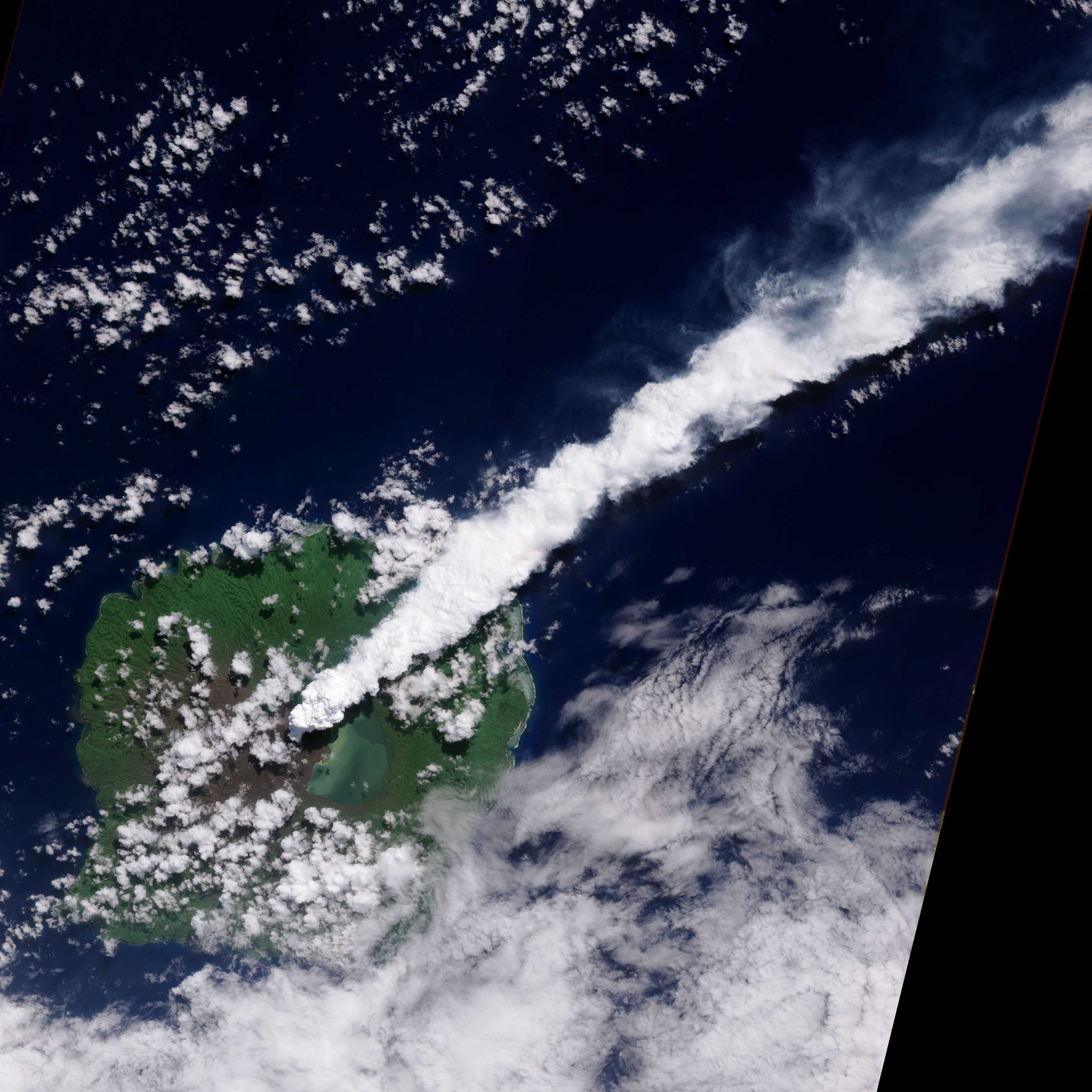 In early April 2010, activity at Gaua Volcano in the Vanuatu Archipelago increased. The Vanuatu Geohazards Observatory reported that the ash column, which first appeared in October 2009, became thicker and higher, and volcanic bombs were frequently sighted from the coastal villages surrounding the volcano. According to Radio New Zealand International, Vanuatu government officials are preparing to evacuate residents of Gaua Island, who are threatened by ash, poisonous gases, and landslides. The thick, steam-rich plume from Guau Volcano blows directly northeast in this natural-color satellite image. It was acquired on April 24, 2010 by the Advanced Land Imager aboard NASA’s Earth Observing-1 (EO-1) spacecraft. The thick steam is brighter white than the surrounding lower-altitude clouds. Vegetation is green, as is Lake Letas. Vegetation to the south and west of the volcano, damaged by ash and acidic volcanic gases, is dark gray-brown.